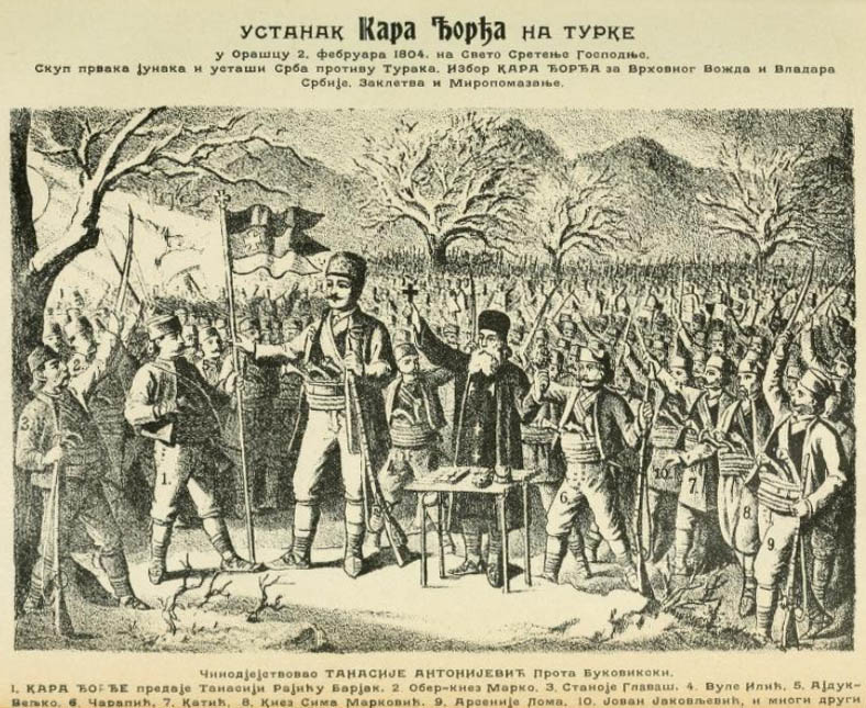 Orašac Assembly, 2 February 1804. Karađorđe is depicted giving the barjak (war flag) to Tanasko Rajić. Other notables are numbered.